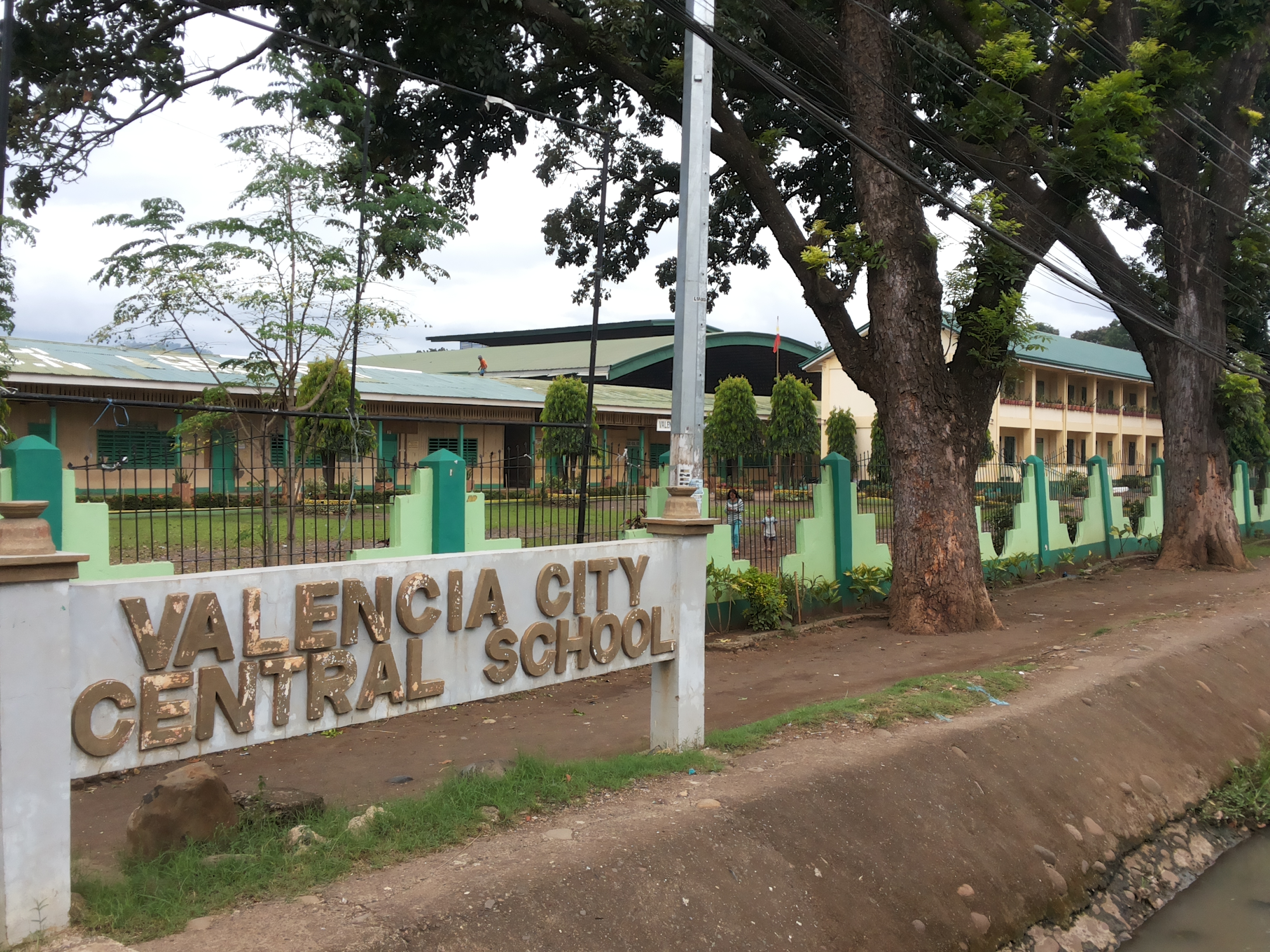 A scene of the City Central school at Valencia City, Bukidnon.